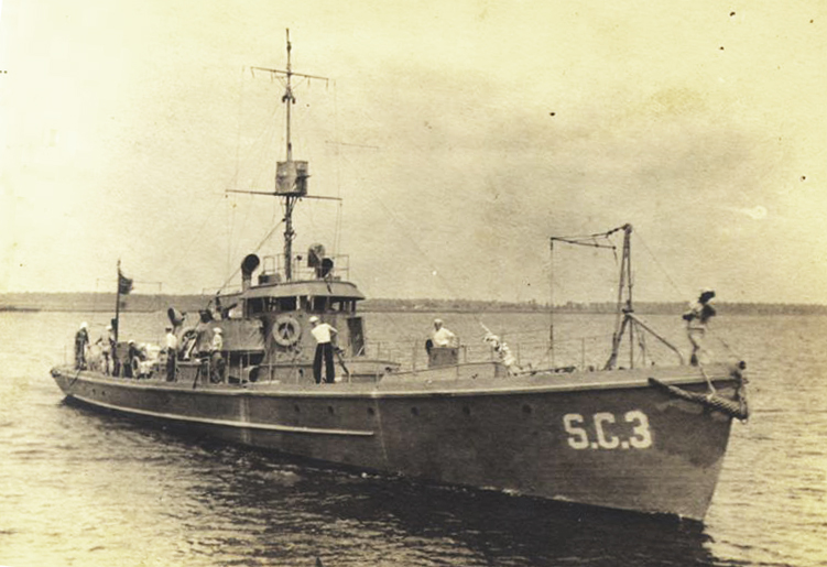 The United States Navy submarine chaser at Charleston, South Carolina.